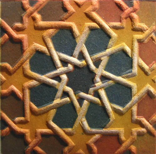 Ceramic tile with interlaced design